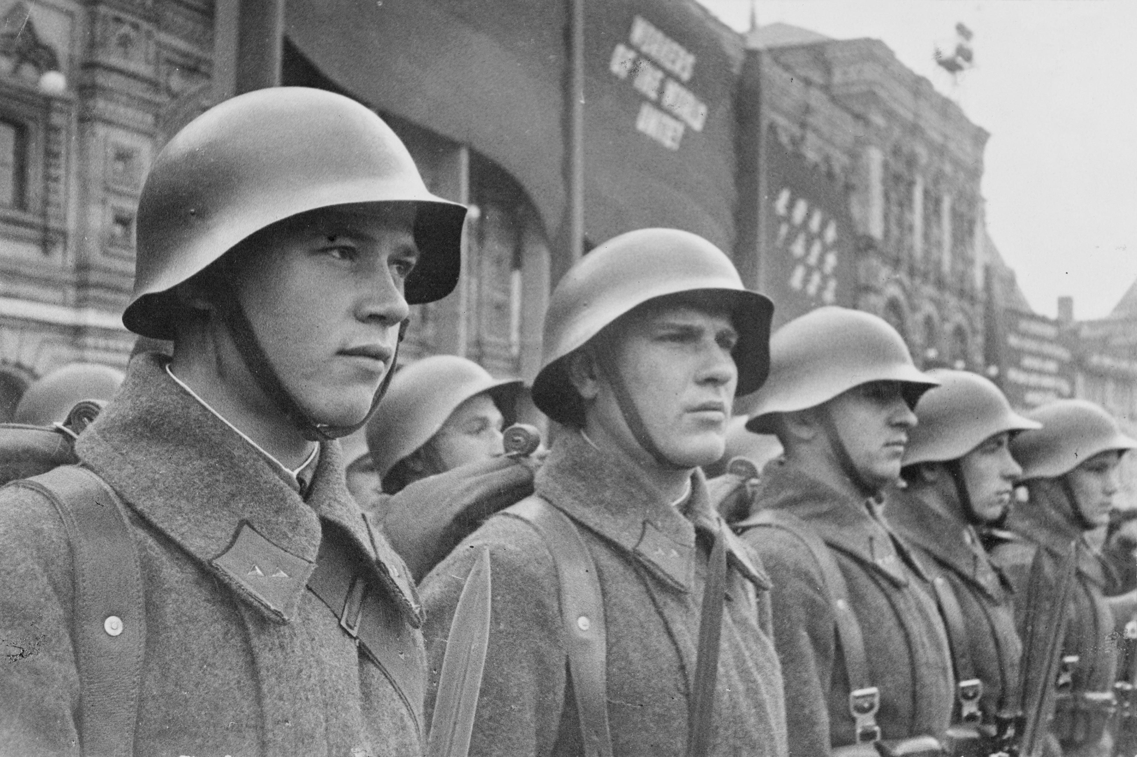 Red Army soldiers (Junior leading staff) in the USSR (Union of Soviet Socialist Republics)